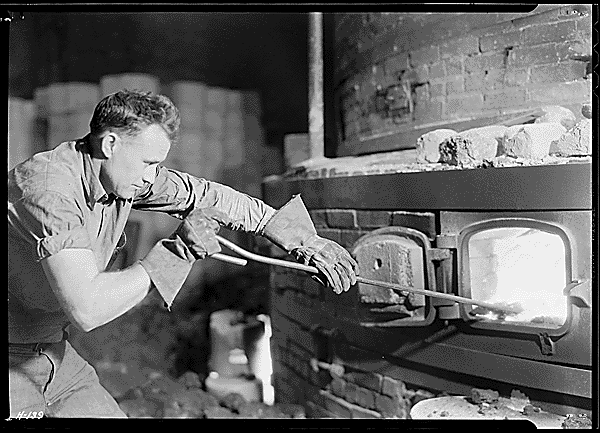 Head kiln fireman Walter Hensley at the Southern Potteries plant in Erwin, Tennessee, USA. Archived under "Walter Hensley, head kiln fireman at Southern Potteries, Elroy, Tennessee. Hensley came to the Potteries from a mountain farm." ARC identifier 532757.